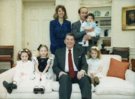 President Ronald Reagan, Mitchell Daniels, and Mrs. Daniels posing for photos and presenting gifts (3-26) Farewell Photo Op. With Mitchell Daniels and Family